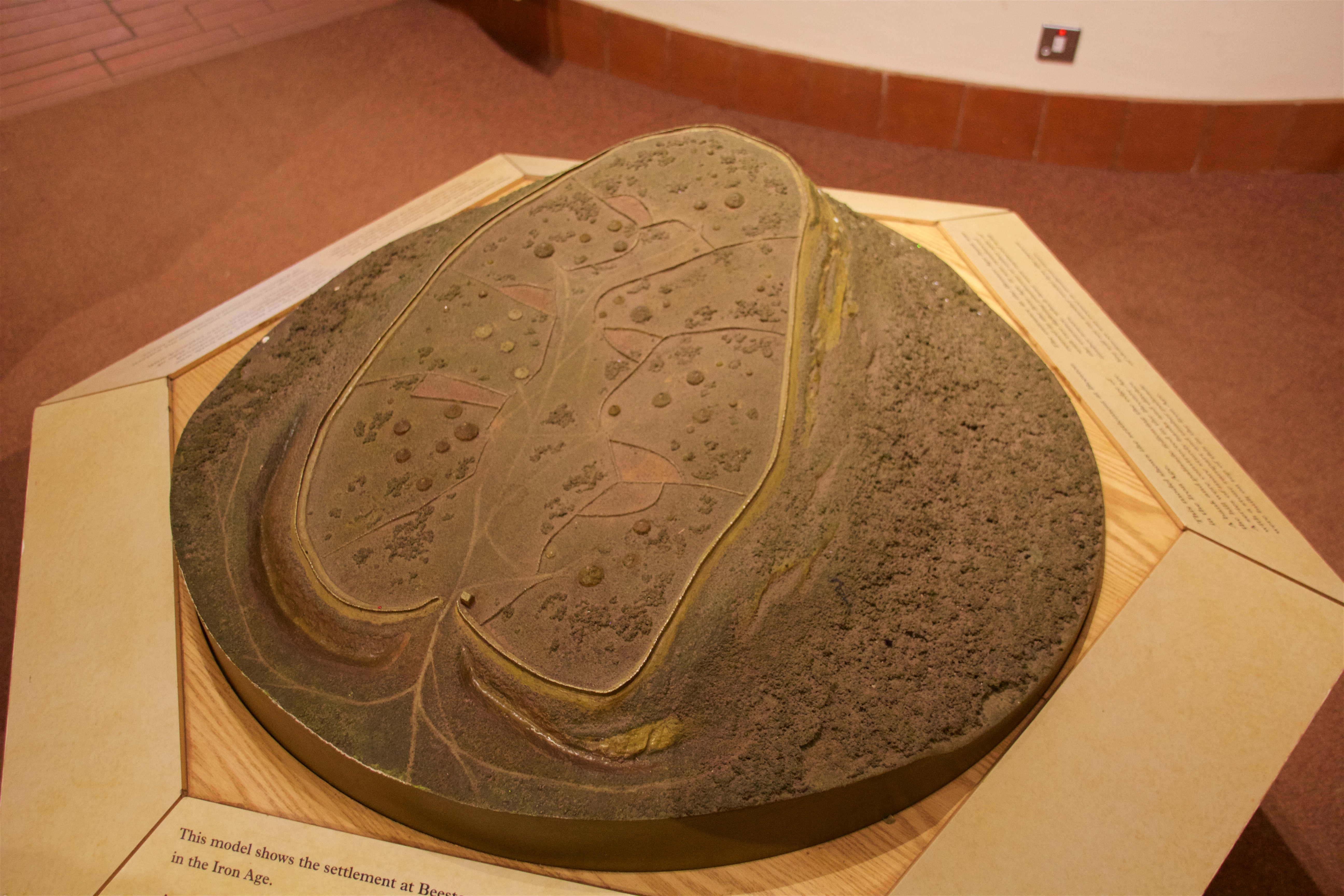 Model of Beeston settlement in the Iron Age. Beeston Castle, UK, in April 2016